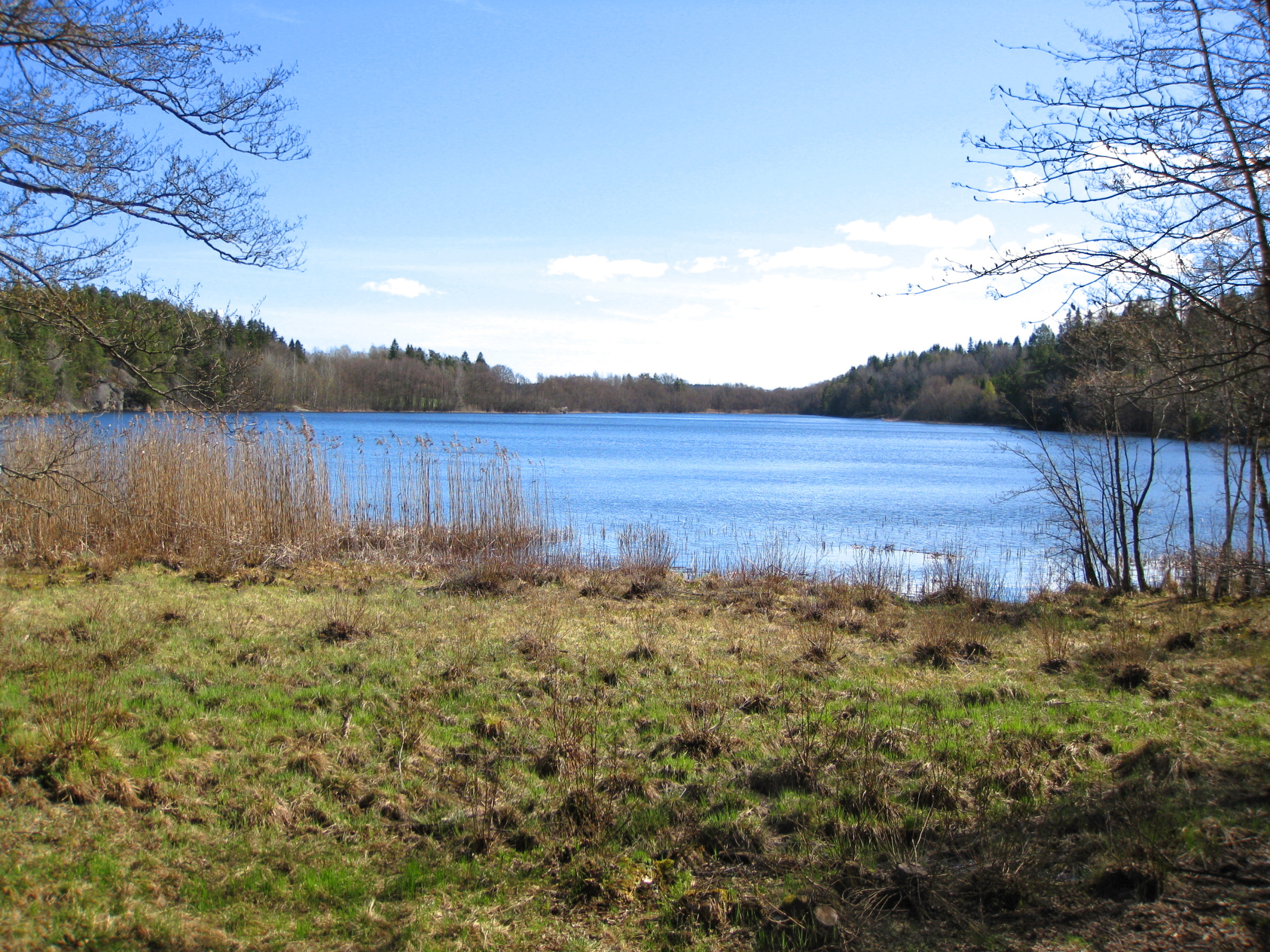 Lake Mörtsjön seen from north, Huddinge, southern Stockholm, Sweden.